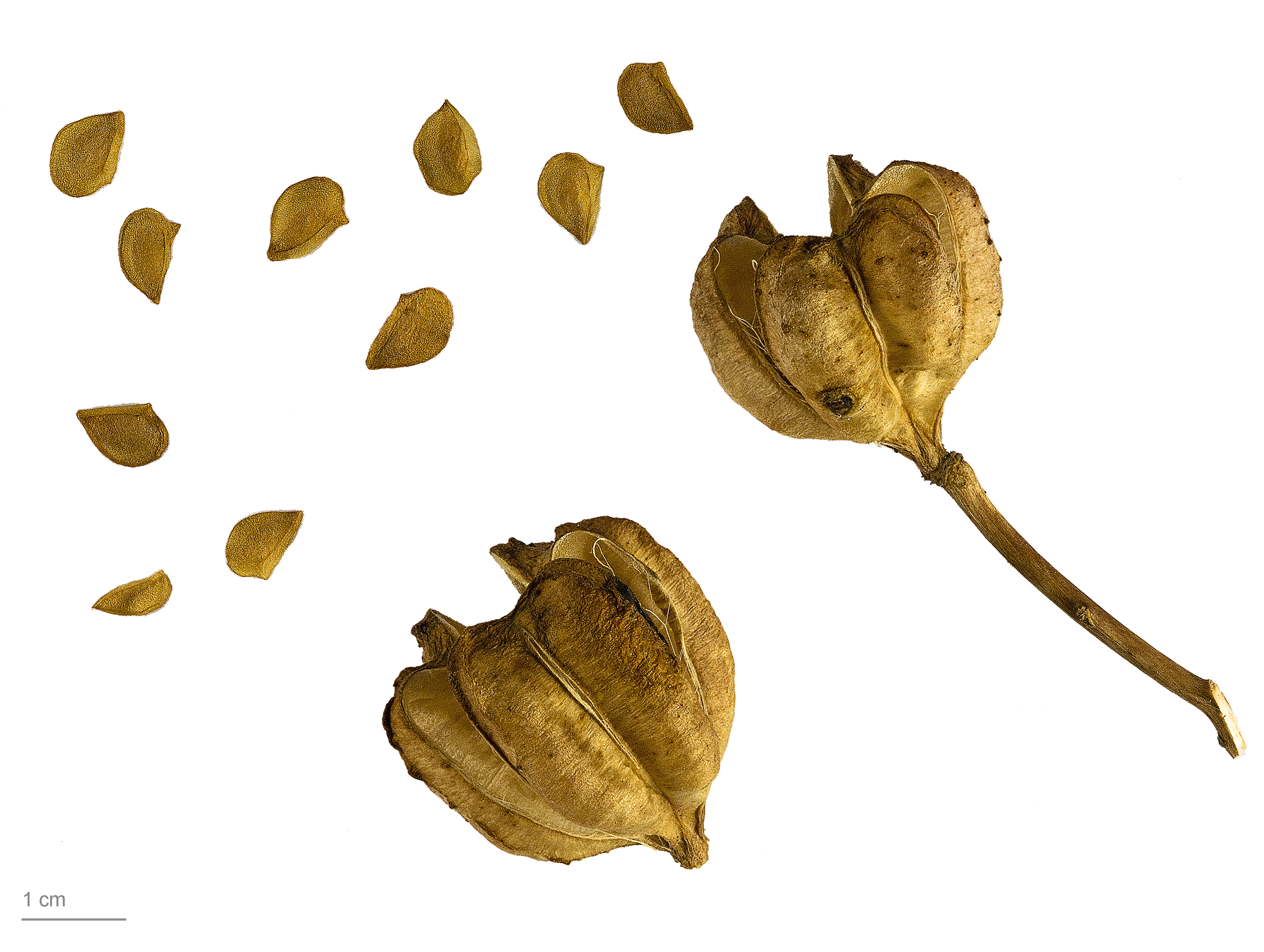 Madonna Lily , fruits and seeds